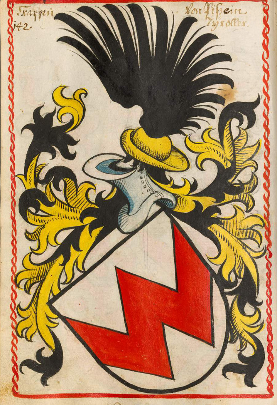 Wappen der Trapp